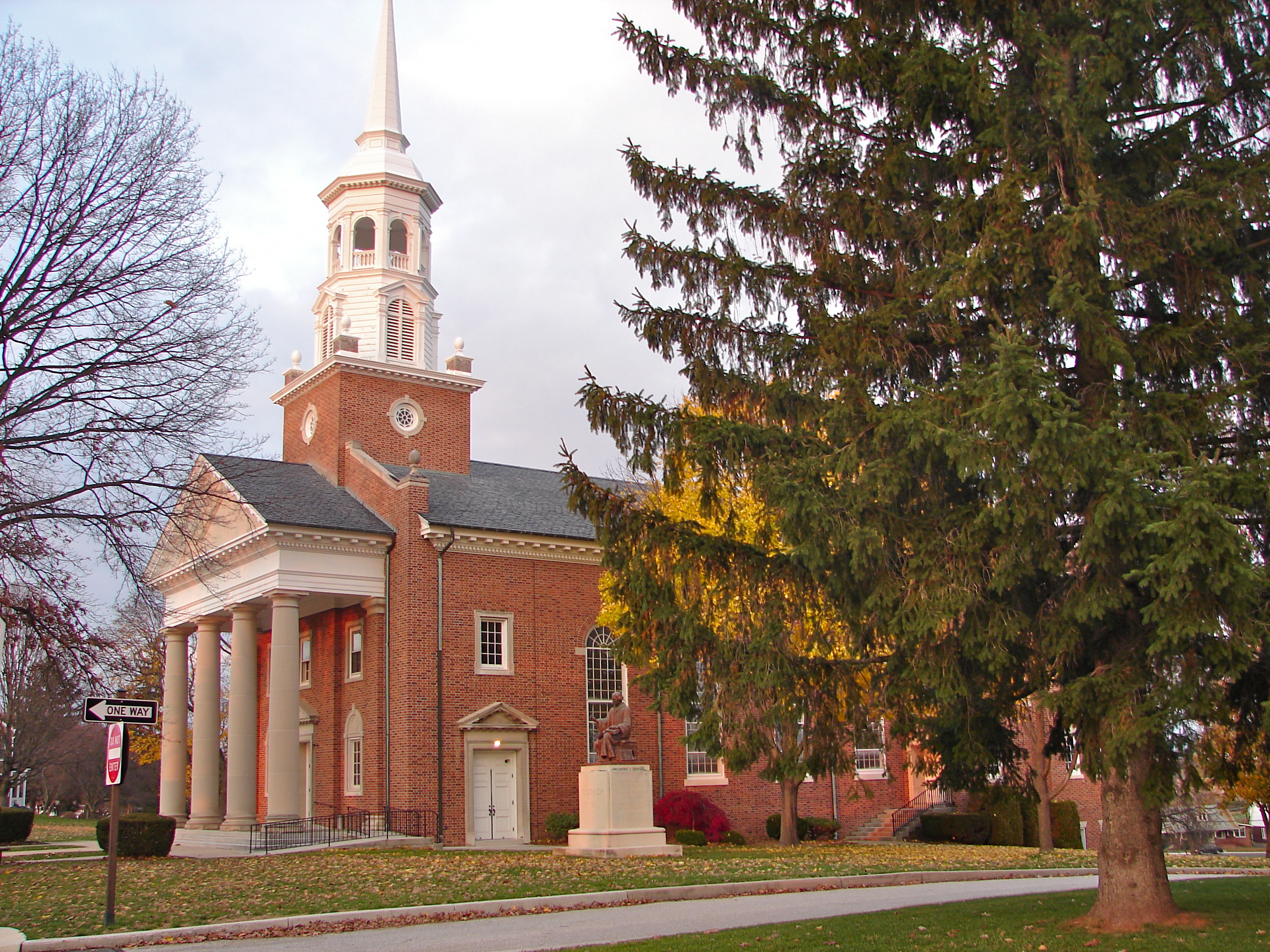 Lutheran Theological Seminary- chapel. On Seminary Ridge, Lutheran Theological Seminary campus in Gettysburg, Pennsylvania.